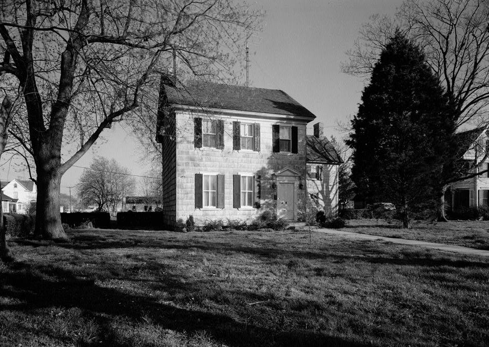 Colonel David Hall House, 107 Kings Highway, Lewes (Sussex County, Delaware) cropped This file comes from the Historic American Buildings Survey (HABS), Historic American Engineering Record (HAER) or Historic American Landscapes Survey (HALS). These are programs of the National Park Service established for the purpose of documenting historic places. Records consist of measured drawings, archival photographs, and written reports. When reusing please credit: Library of Congress, Prints & Photographs Division, DEL,3-LEW,7-1 This tag does not indicate the copyright status of the attached work. A normal copyright tag is still required. See Commons:Licensing for more information. English | +/− This work is in the public domain in the United States because it is a work prepared by an officer or employee of the United States Government as part of that person’s official duties under the terms of Title 17, Chapter 1, Section 105 of the US Code. See Copyright. Note: This only applies to original works of the Federal Government and not to the work of any individual U.S. state, territory, commonwealth, county, municipality, or any other subdivision. This template also does not apply to postage stamp designs published by the United States Postal Service since 1978. (See 206.02(b) of Compendium II: Copyright Office Practices). It also does not apply to certain US coins; see The US Mint Terms of Use. This file has been identified as being free of known restrictions under copyright law, including all related and neighboring rights. Object location 38° 46′ 25.0″ N, 75° 8′ 20.0″ W This and other images at their locations on: Google Maps - Google Earth - OpenStreetMap - Proximityrama(Info)